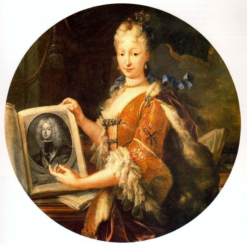 Portrait of Isabel Farnesio (1692-1766)